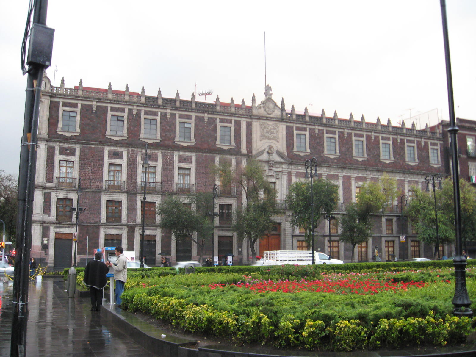 National Monte de Piedad Building, on site of Houses of Hernan Cortes, NW corner of Zocalo in the Centro of Mexico City